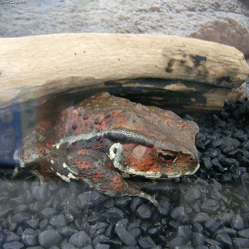 アズマヒキガエル 学名：’’Bufo japonicus formosus’’ 英名：Eastern-Japanese Common Toad ペットショップで売られている個体 Location 神戸市中央区 ペットショップにて Copyright OpenCage